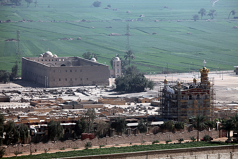 View to the monastery in the eastern direction, White Monastery, Egypt